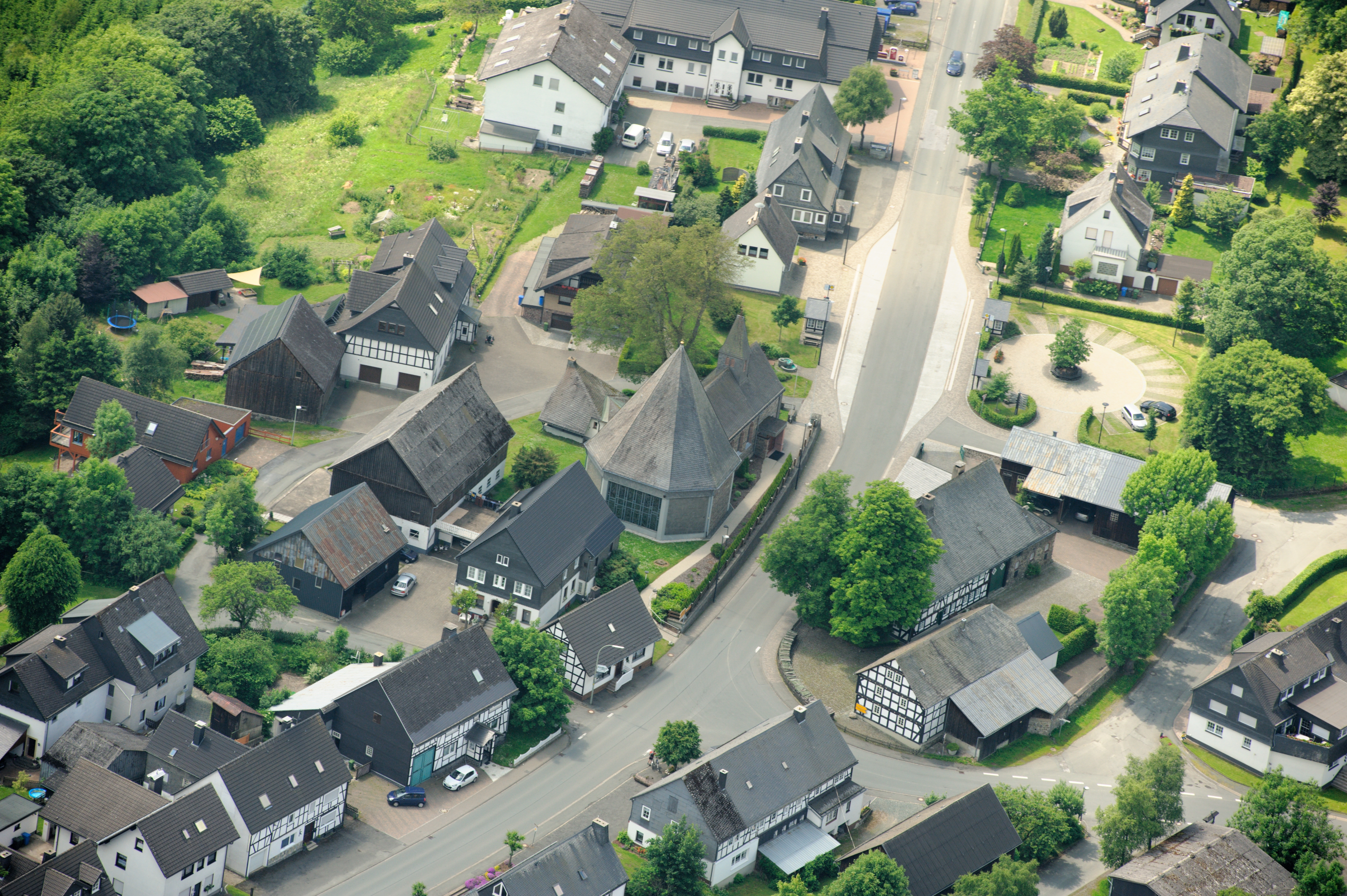 Fotoflug Sauerland-Ost, Küstelberg mit Laurentiuskirche The making of this document was supported by the Community-Budget of Wikimedia Germany.